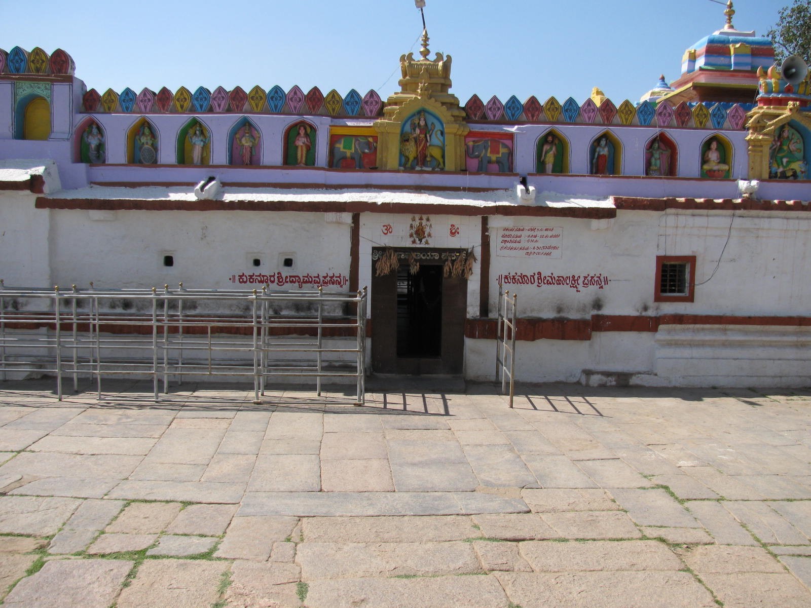 Kuknur-Inside Temple